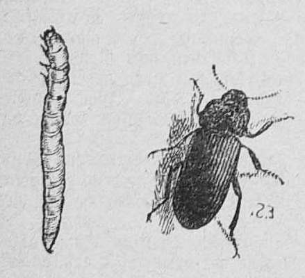 caption: "Mehlwurm u. Mehlkäfer."